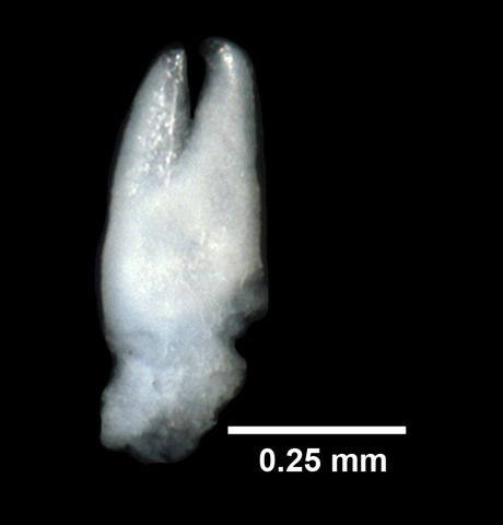 Asterias rubens Linnaeus, 1758 - Preserved specimen - pedicellaria Asterias rubens (YPM IZ 031009). Digital Image: Yale Peabody Museum of Natural History; photo by Eric A. Lazo-Wasem 2014 ; Identified by Hilary Williams Location Country or area United States of America County Barnstable County Decimal latitude 41.7128 Decimal longitude -70.487853 Geodetic datum WGS84 Locality Sandwich jetty Municipality Sandwich State province Massachusetts Water body Atlantic Ocean; Gulf of Maine; Cape Cod Bay